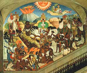 It's a mural that was painted by Diego Rivera, in which he described the precolombine era of Mexico. Actually this mural is located in the national palace in Mexico City.